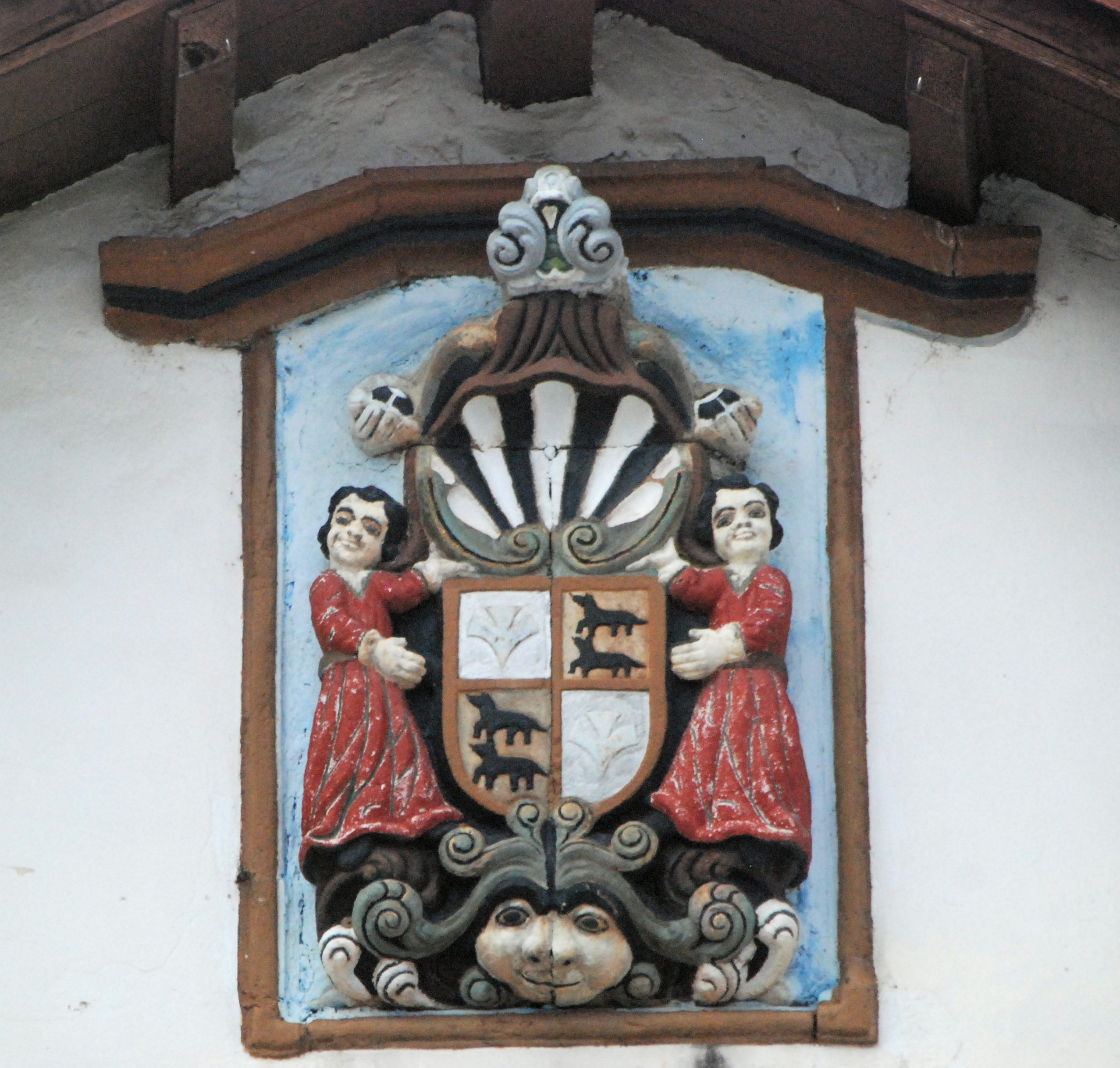 Coat of arms of the village of Arantza in Navarre